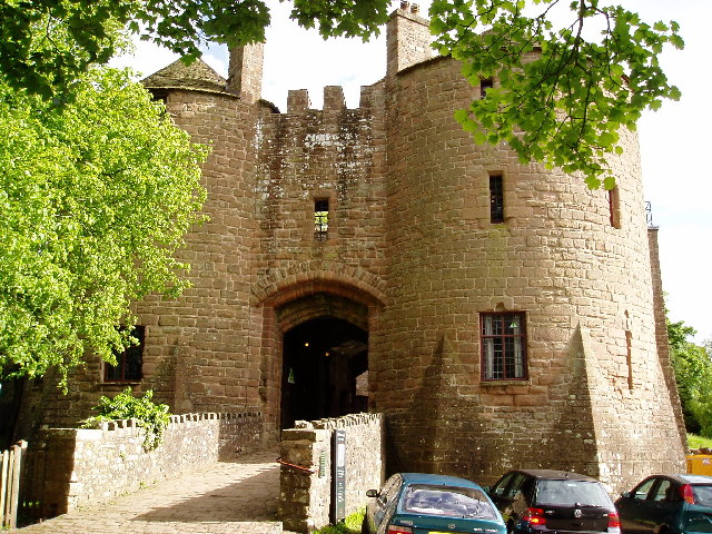 St Briavels Castle. This is the 12th Century gatehouse of the original castle that collapsed in the 18th Century. It is now used as a Youth Hostel